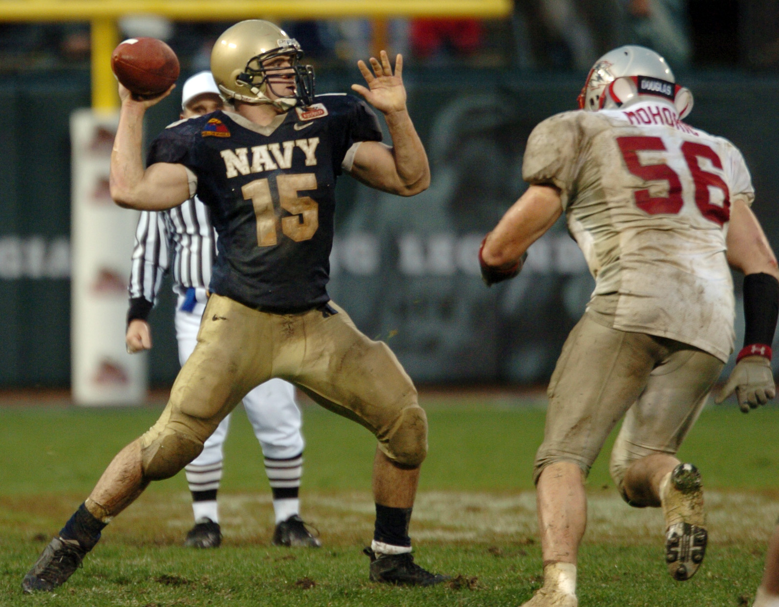 U.S. Naval Academy Midshipman 1st Class Frank Divis passes the ball, under pressure from New Mexico's Mike Mohoric, to quarterback Aaron Polanco in the 4th quarter of play against the Lobos of New Mexico at the Emerald Bowl in San Francisco.